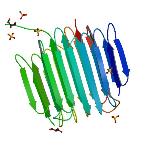 Anti-Freeze-Protein RiAFP(H4) from Rhagium inquisitor